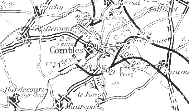 Diagram of French operations leading to the capture of Combles 20-26 September 1916